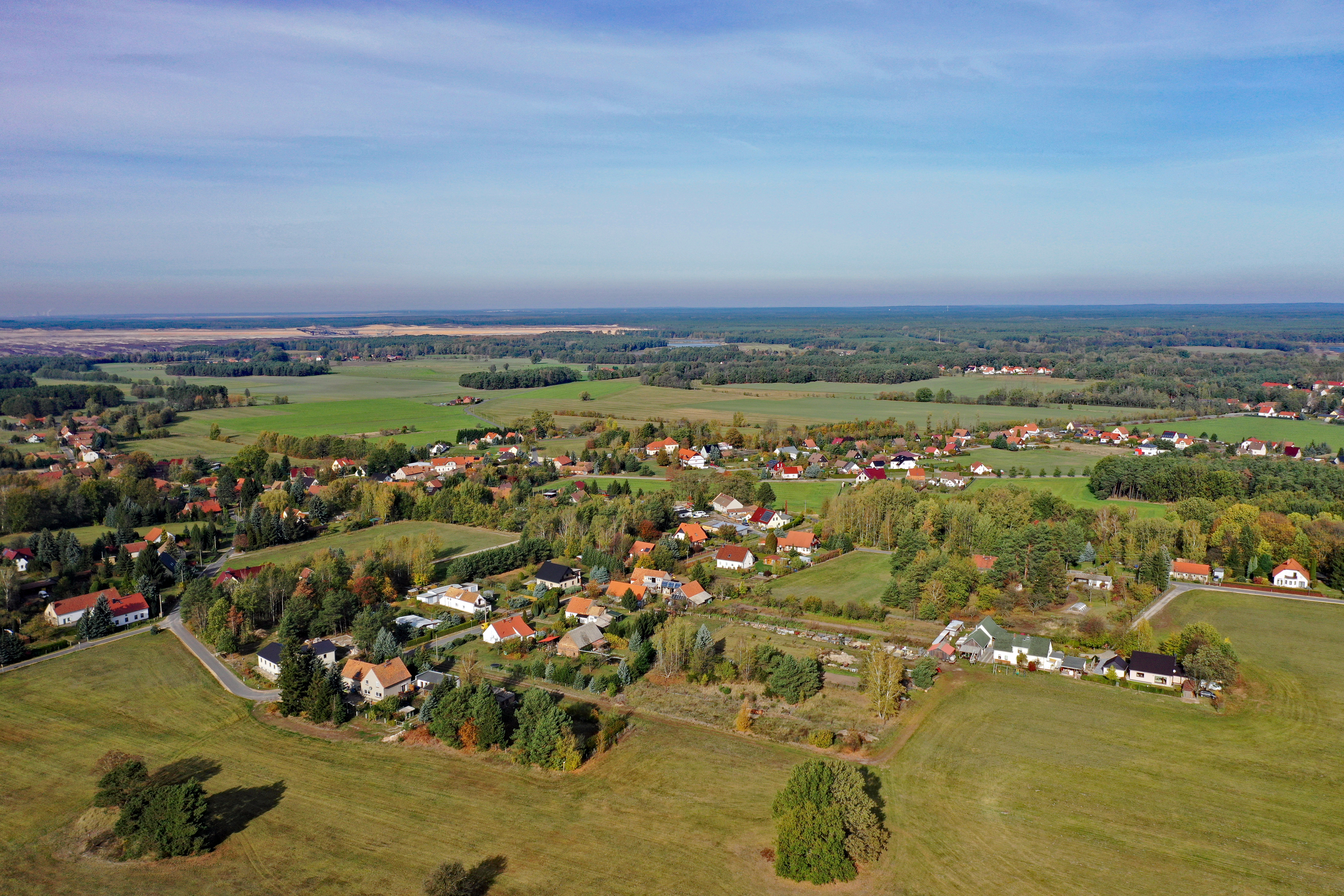 Nieder-Prauske (Rietschen, Landkreis Görlitz, Saxony, Germany) Hornjoserbsce: Powětrowy wobraz Delnich Brusow pola Rěčic